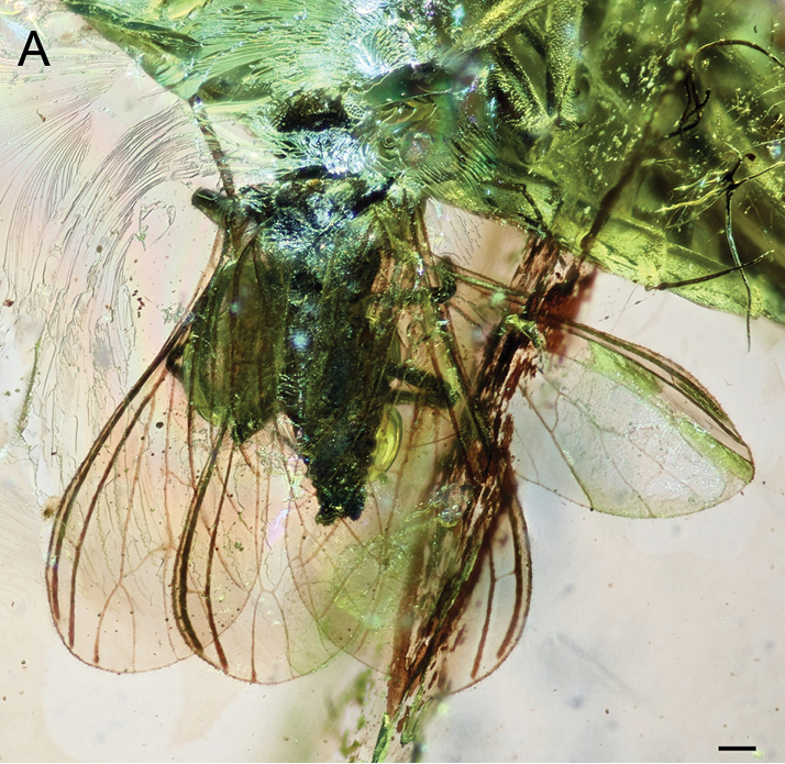 Mulleroconis hyalina holotype BUB 2907 in Burmese amber. A Habitus dorsally Scale bar: 100 µm.